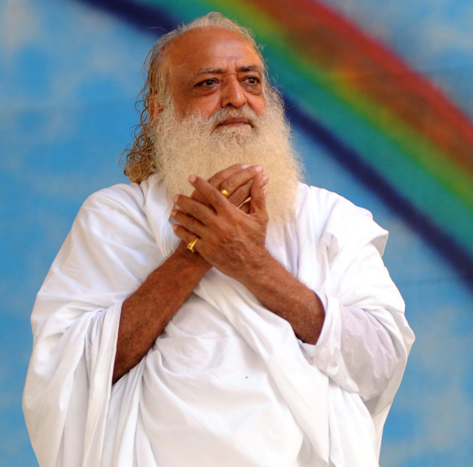 Asharam Bapu in one of his satsang programs ,2009